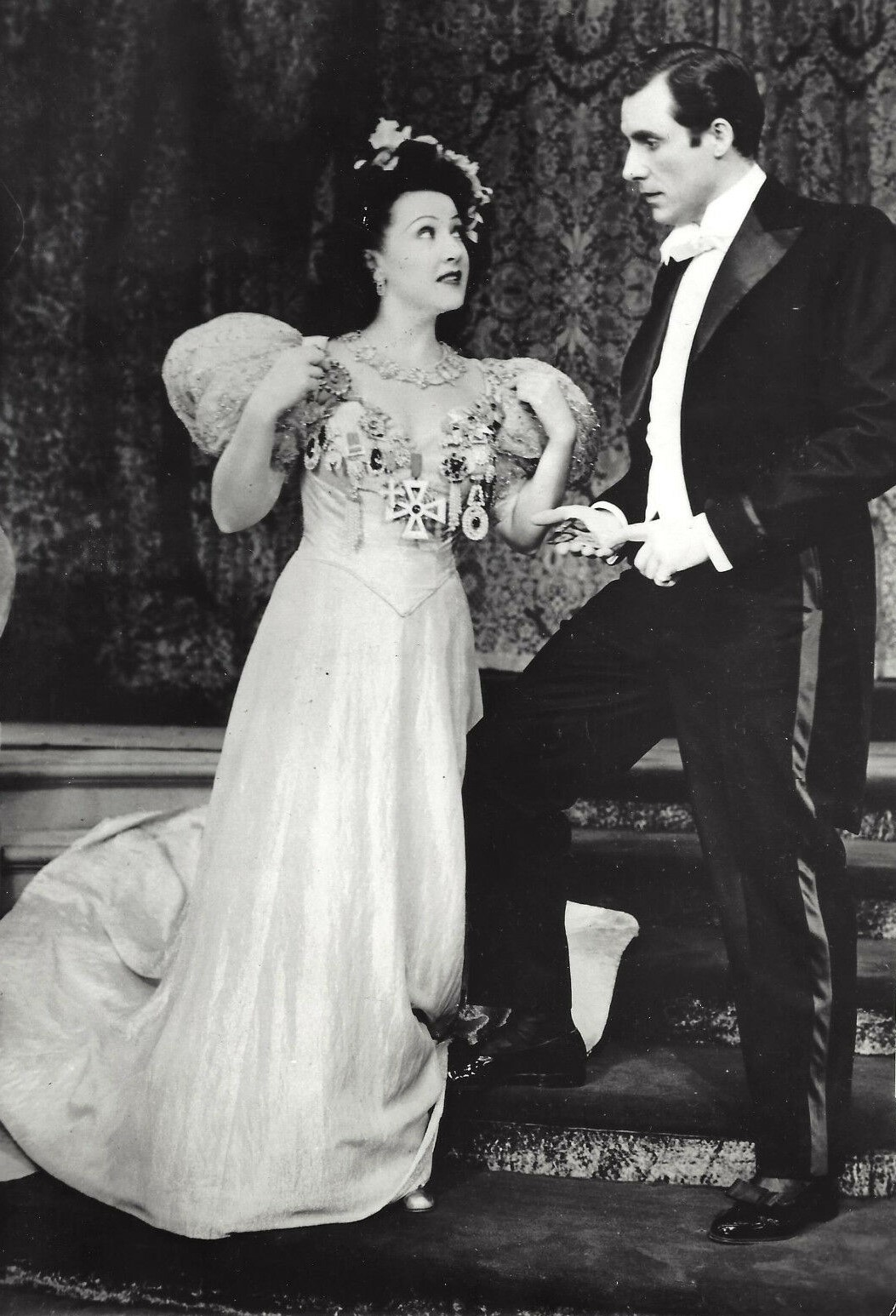 Ethel Merman & Ray Middleton in the musical Annie Get Your Gun, Broadway - publicity still (cropped)